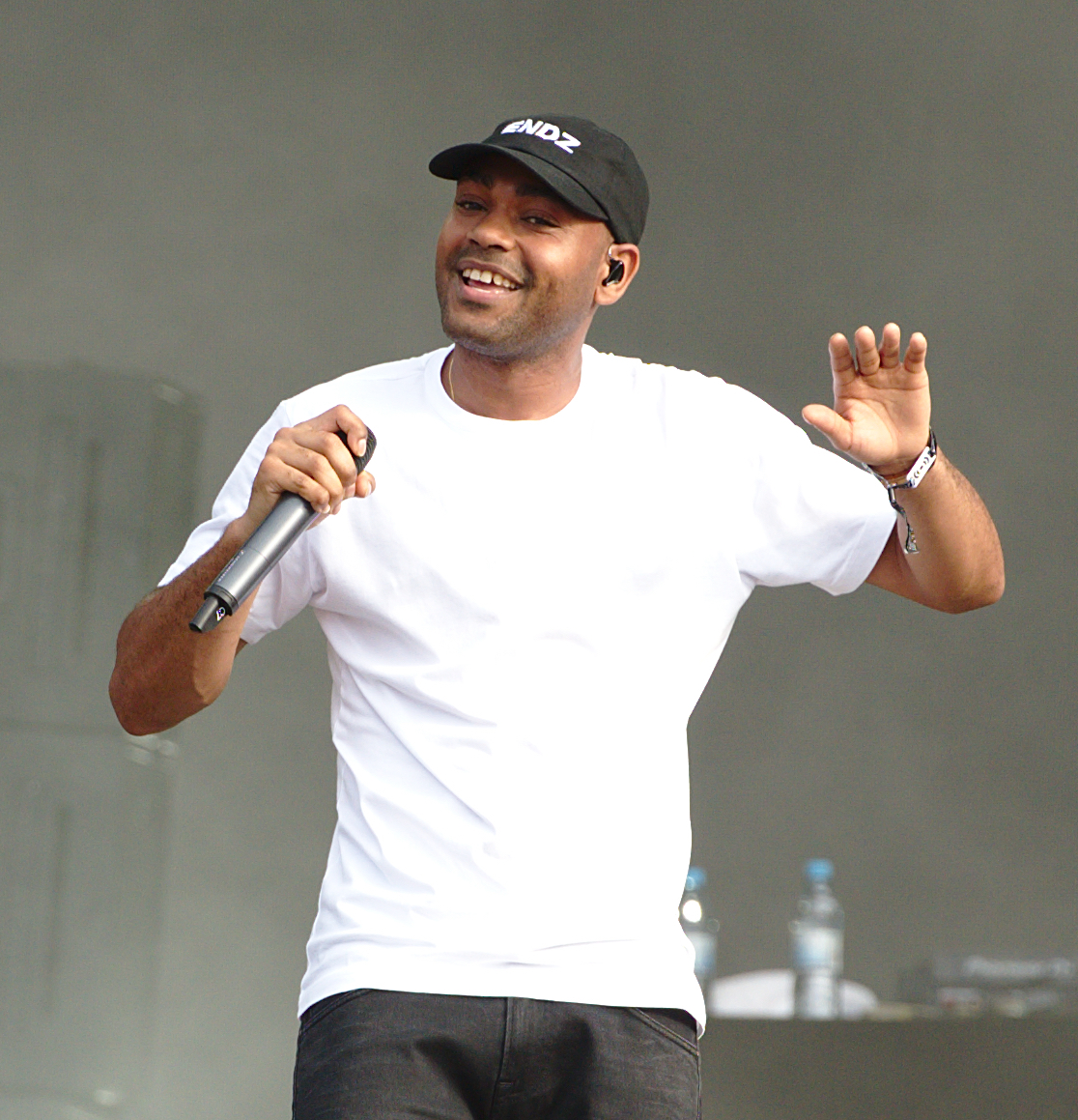 Kano performing live at Splash! Festival (2017).